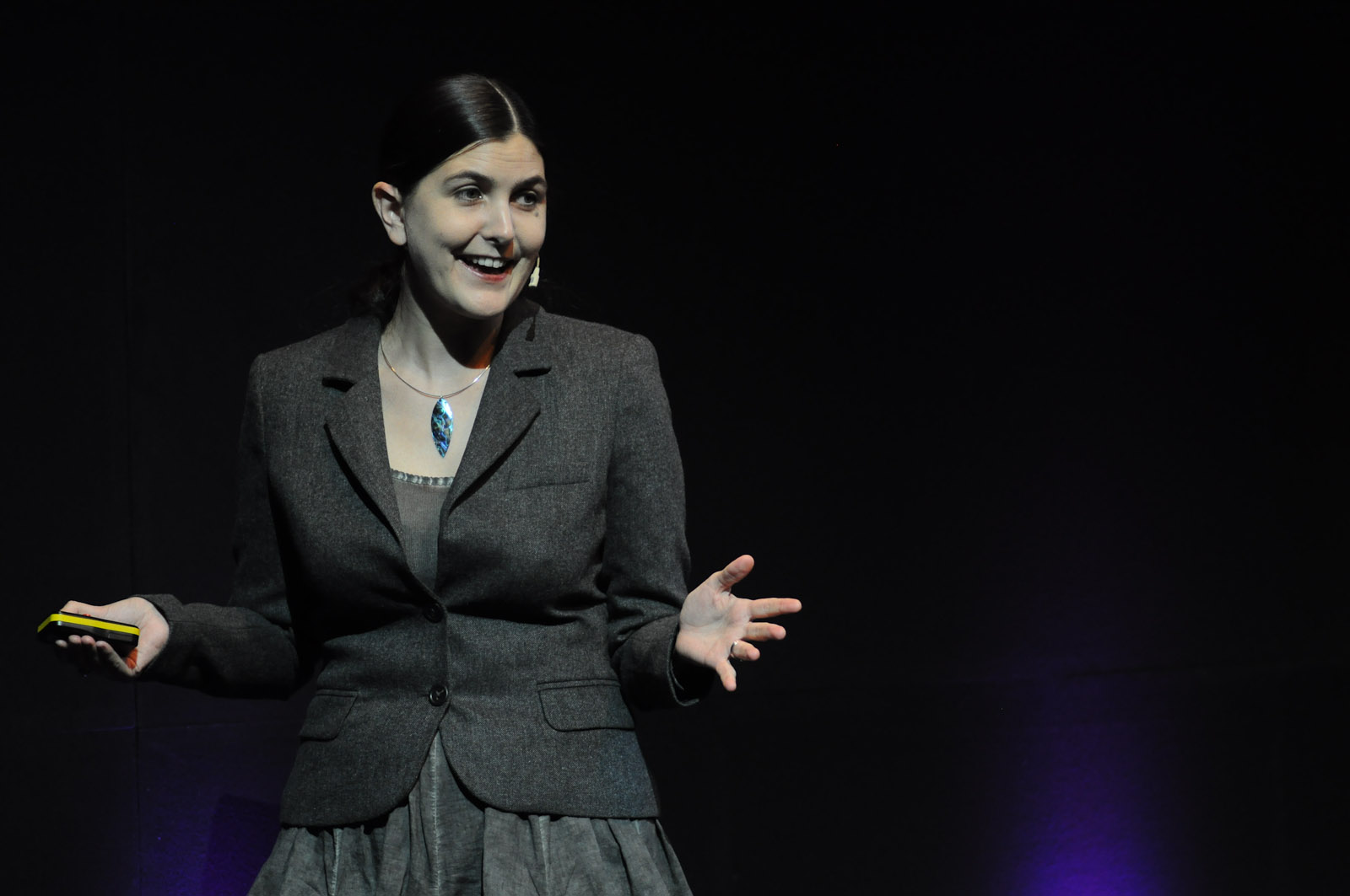 by Ivo Näpflin